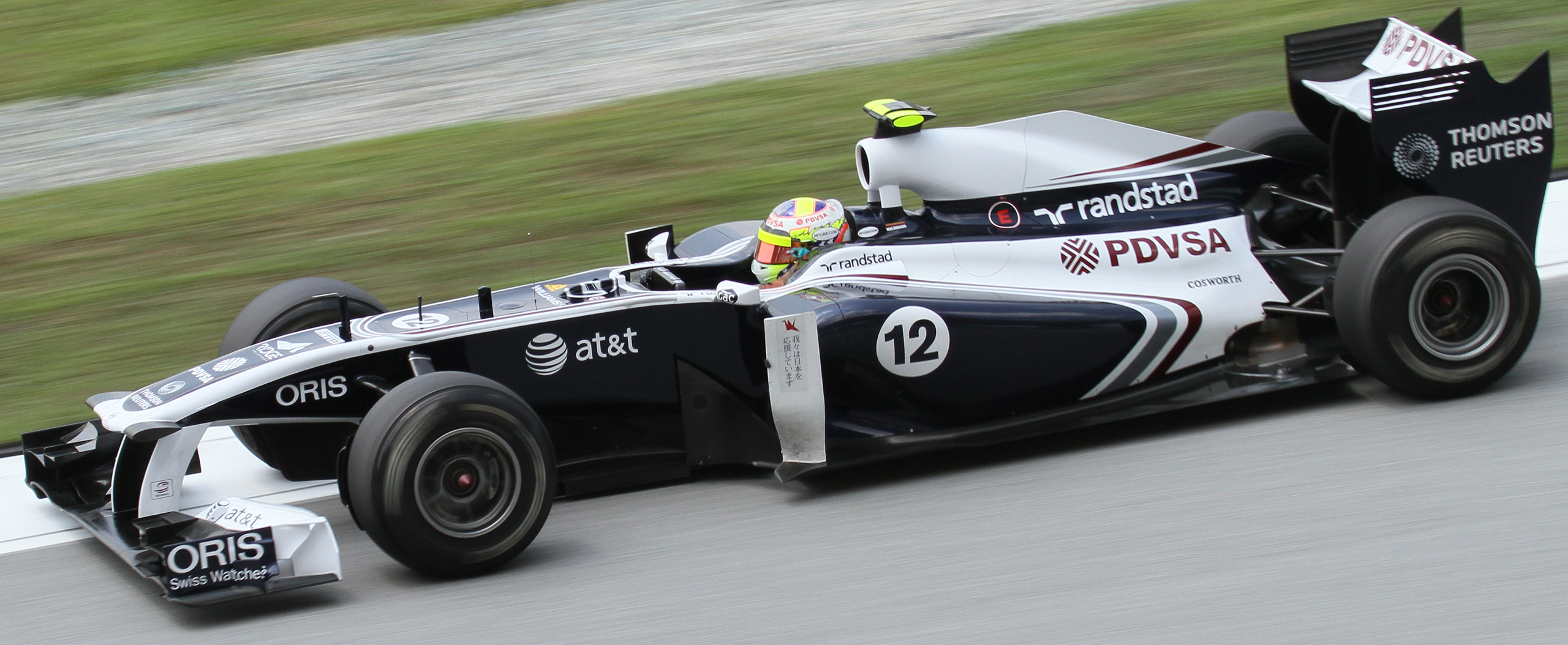 Formula One 2011 Rd.2 Malaysian GP: Pastor Maldonado (Williams) during the second practice session on Friday.